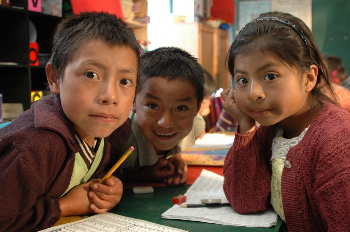 K’iche’ Maya children at their desks in school in Santa Cruz del Quiché, Quiché, Guatemala. The school participates in USAID Education projects.